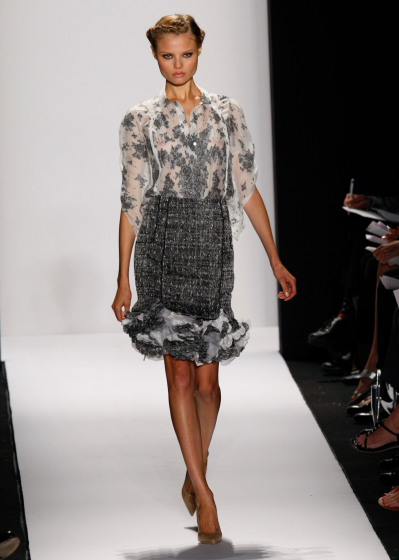 Magdalena Frackowiak, Polish model